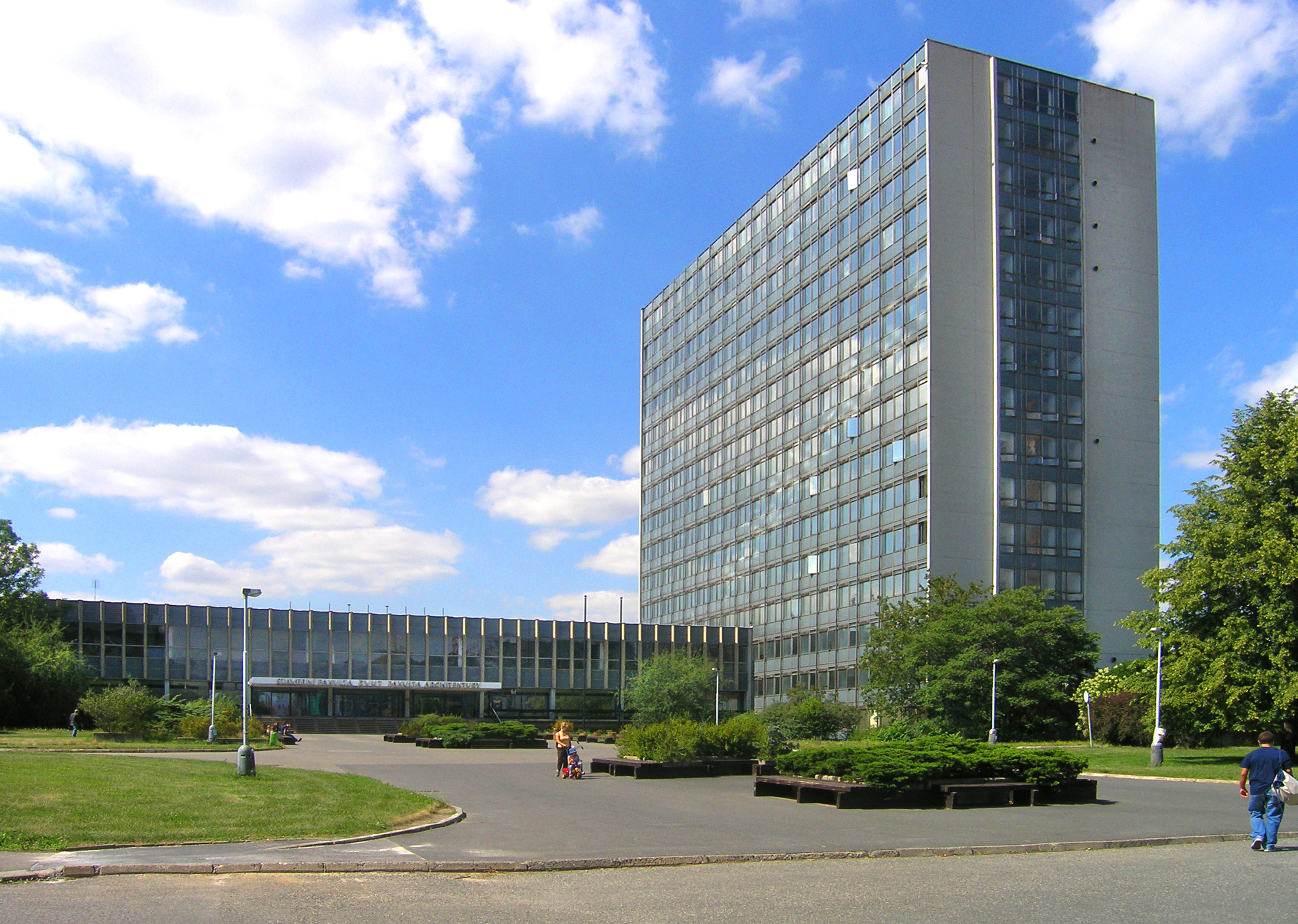 Faculty of Civil Engineering and Faculty of Architecture at Thákurova street at Dejvice, Prague